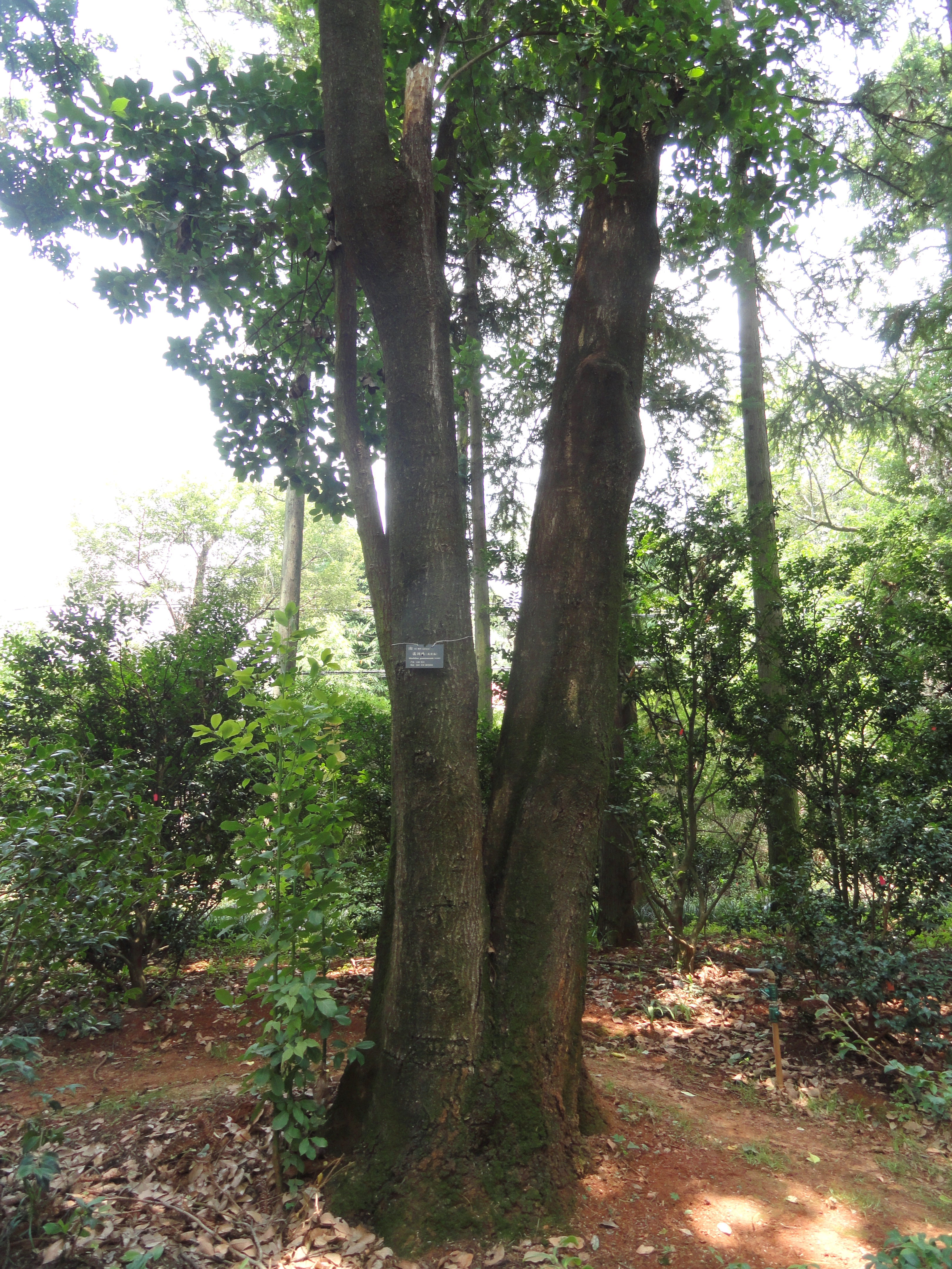 Plant specimen in the Kunming Botanical Garden, Kunming, Yunnan, China.